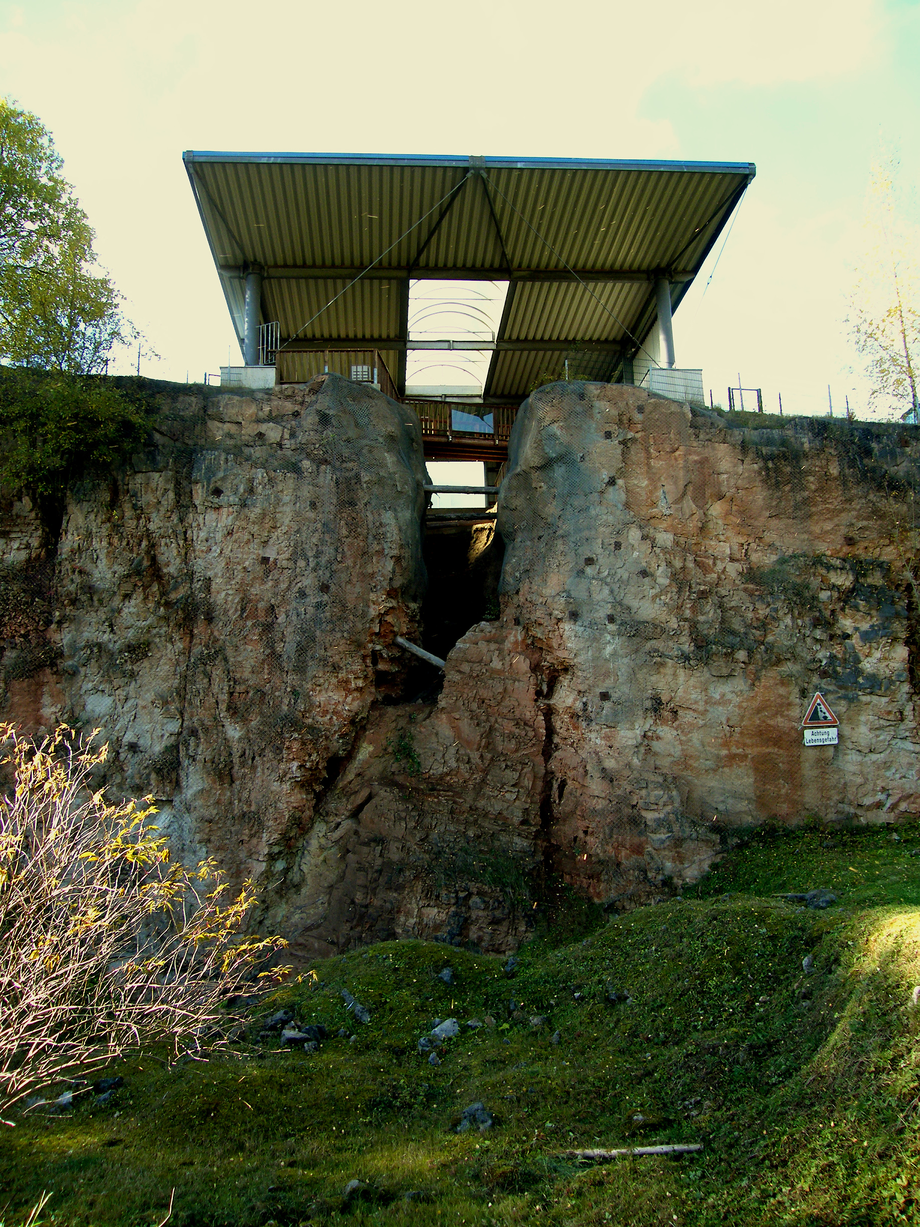 Section of the Korbach fissure in the abandoned Fissler quarry at the southern outskirts of the town of Korbach, NW-Hesse, Germany. The fissure as a whole is up to 20 meters deep, up to 3,50 meters wide and has a total length of 1 kilometer. The fissure actually is filled by sediment but the upper part of the vertebrate-fossil-bearing fill has been removed through excavation works at this site. The tectonic fissure, probably pronounced by paleo-karstification, is situated within marine carbonatic rocks of the Upper Permian (“Zechstein”). The fill is only slightly younger than the surrounding rock (“Zechstein” as well).